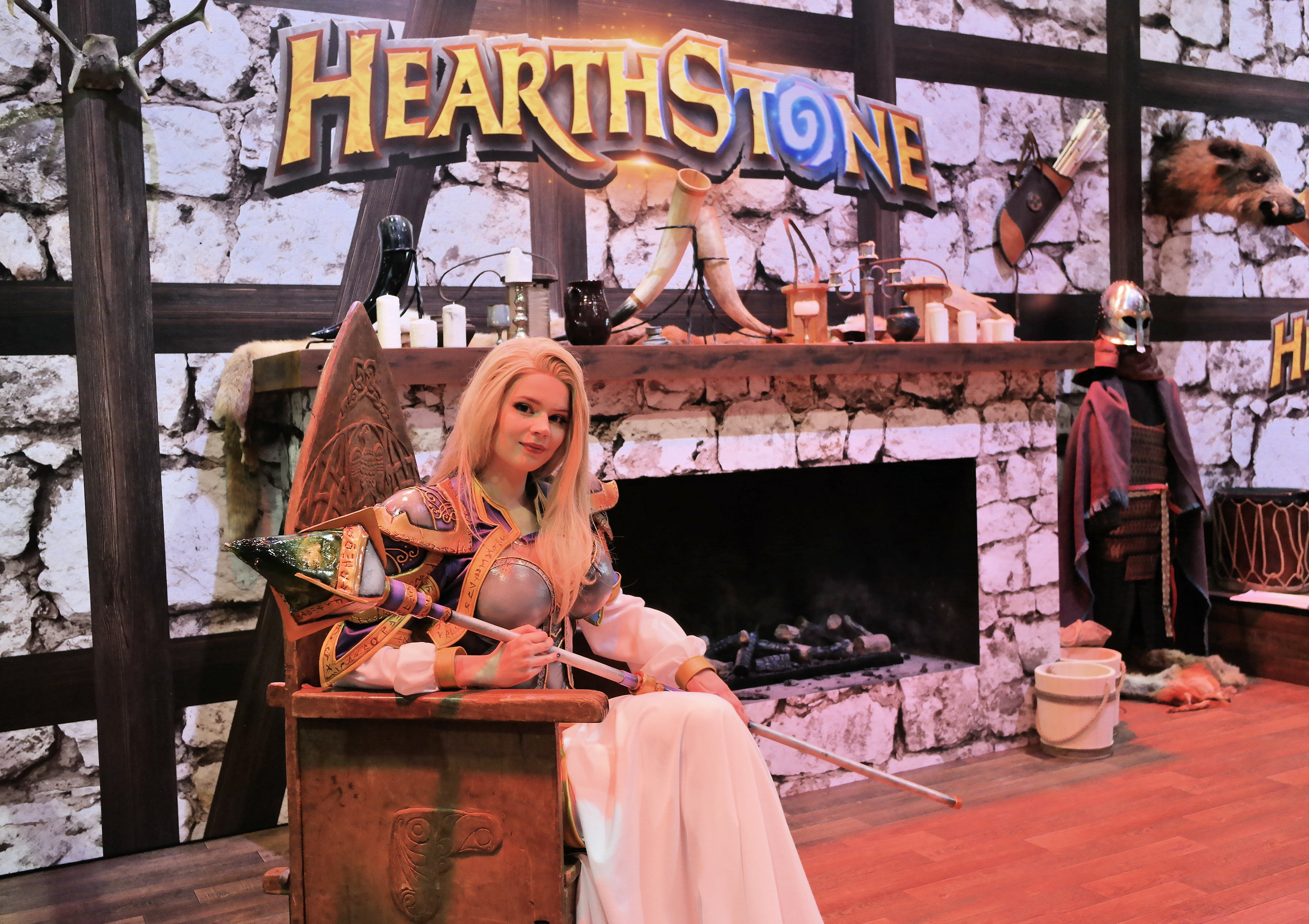 Heartstone Cosplay, Arshania Cosplay, Multigenre Fan Convention Pyrkon, Poznań, Poland